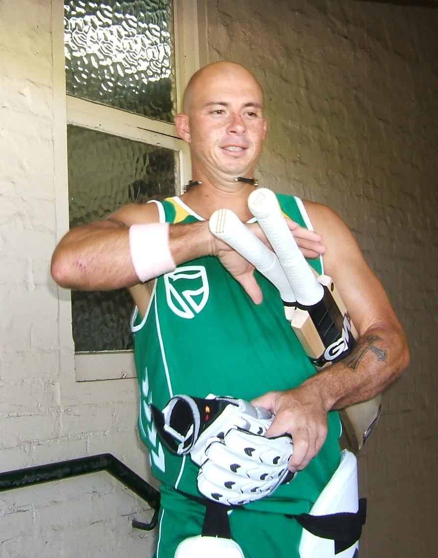 Herschelle Gibbs at a training session at the Adelaide Oval